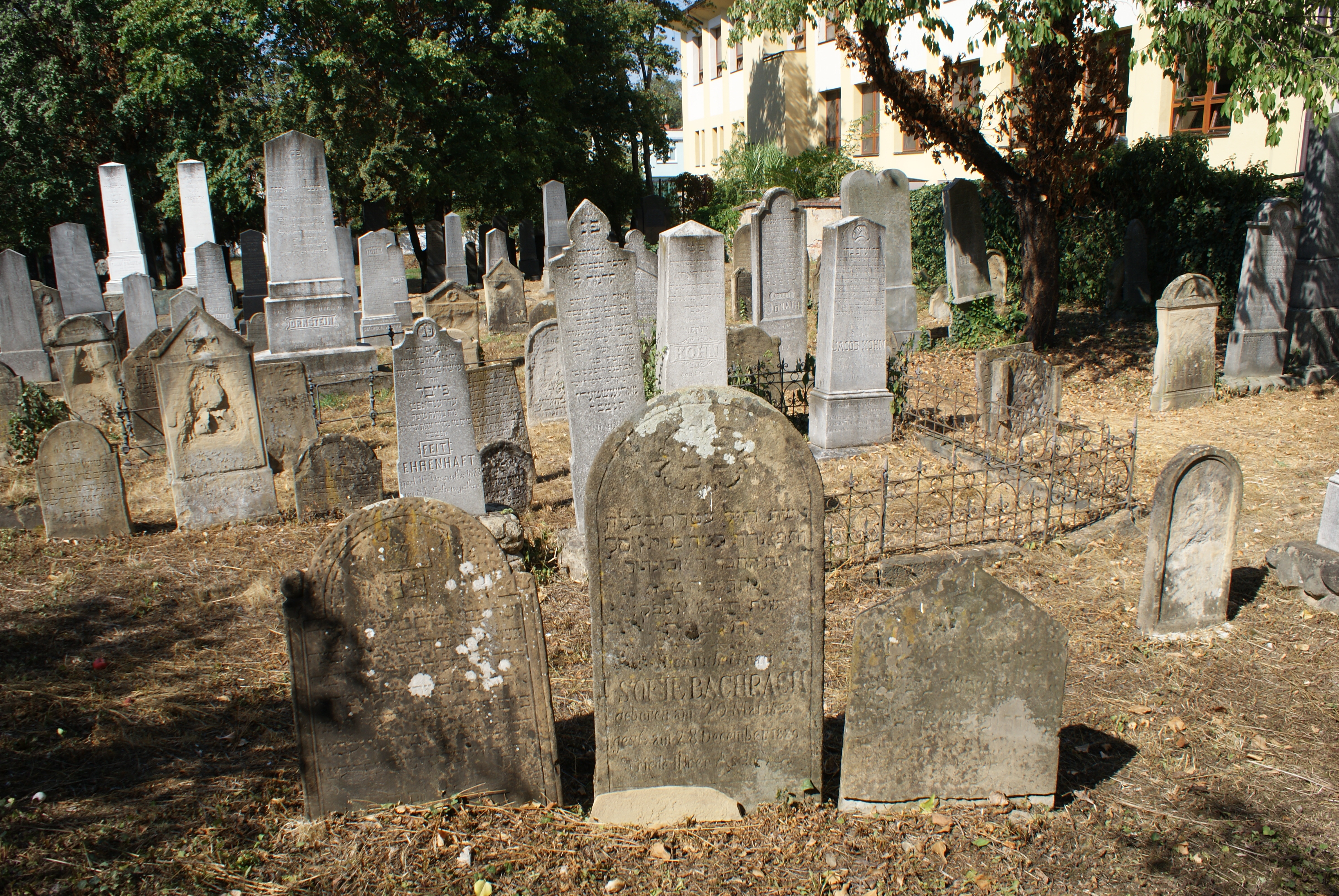 Jewish cemetery in Veselí nad Moravou, Hodonín district, Czech Republic.